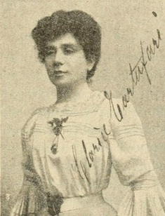 Portrait of the Italian writer Clarice Tartufari. In "Illustri italiani contemporanei" by Onorato Roux (Firenze, 1908)